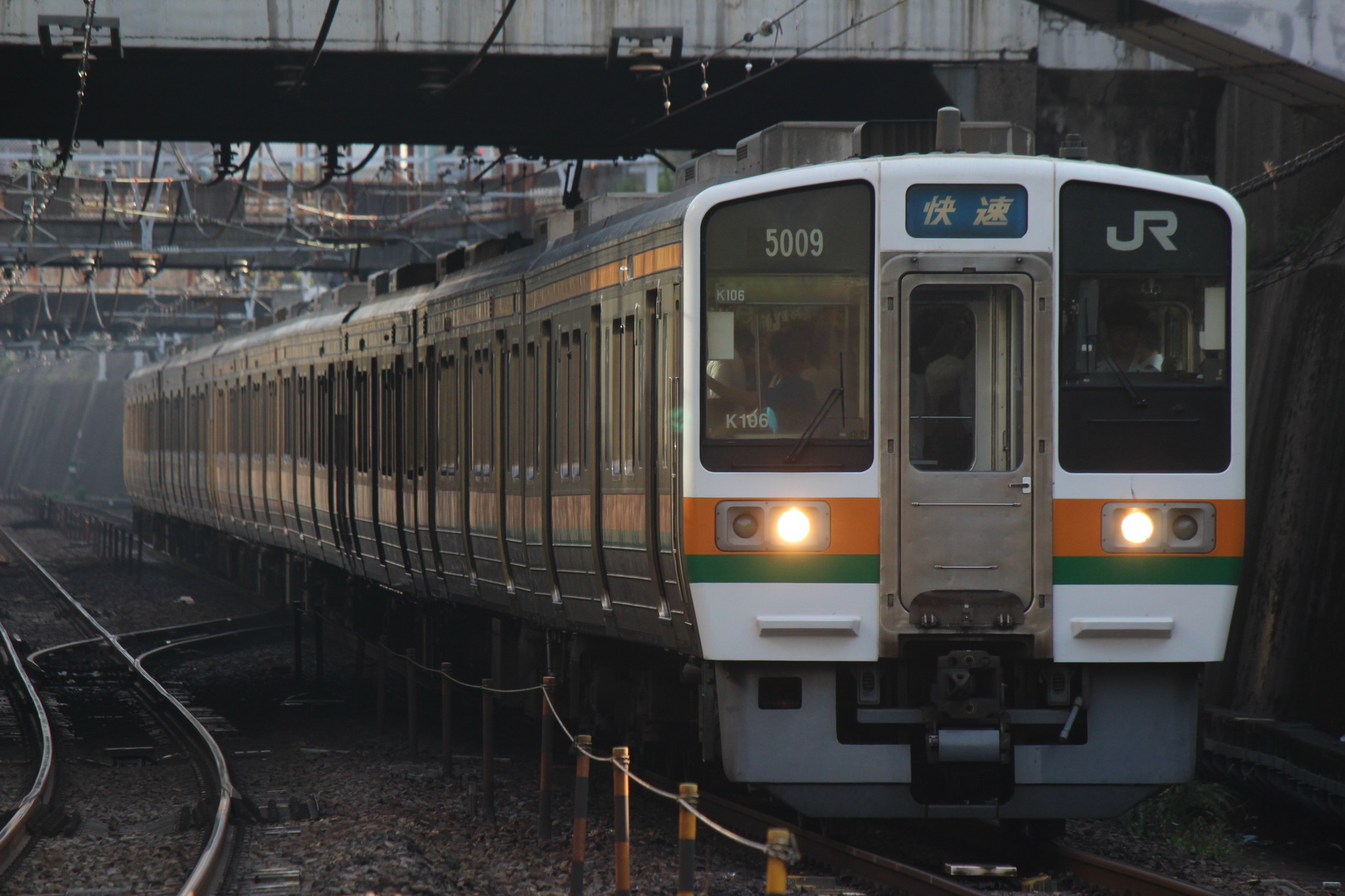 Three JR Central 211 series EMUs led by 3-car 211-5000 series set K106